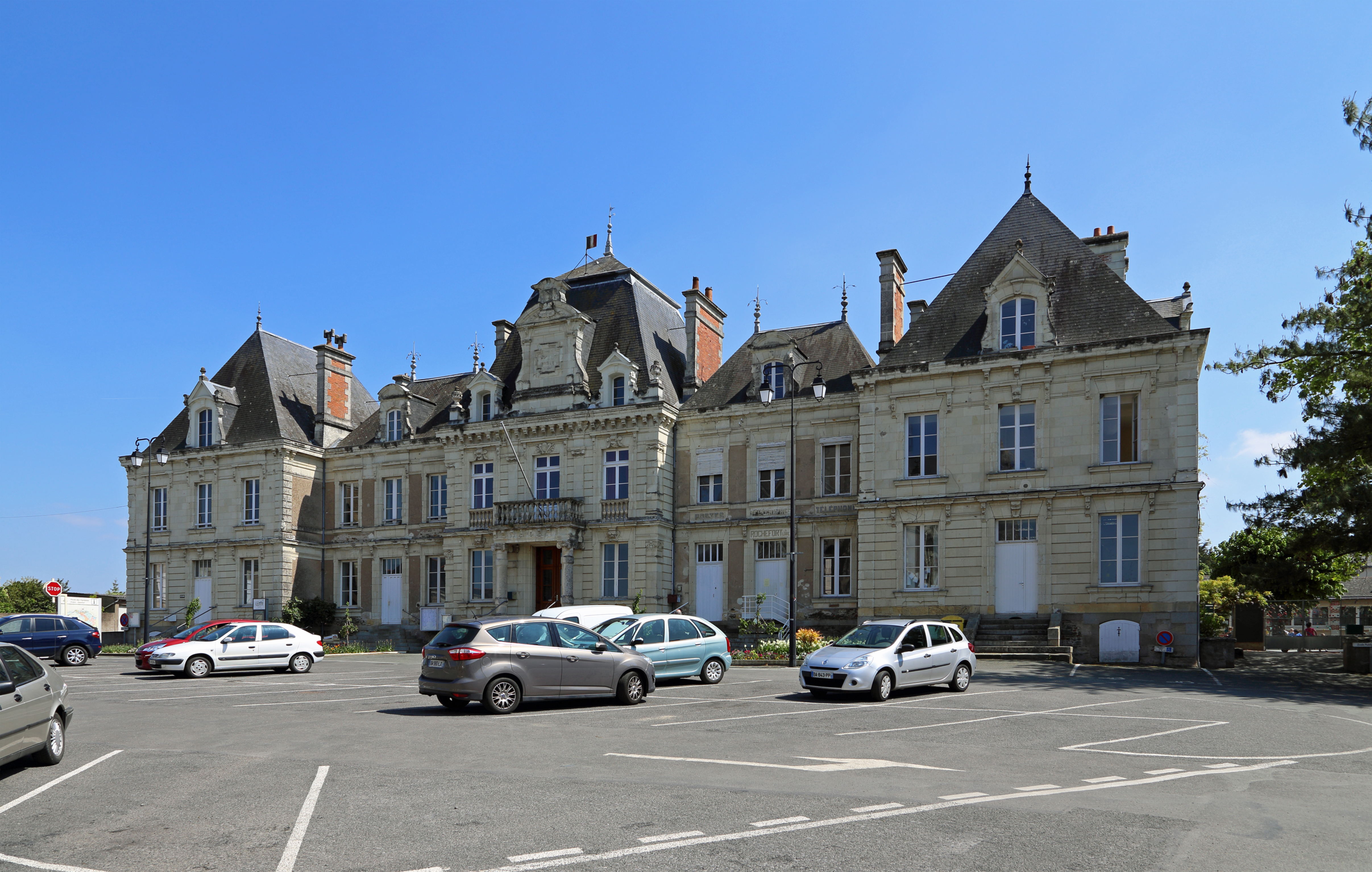 Rochefort-sur-Loire (département Maine-et-Loire, France): town hall